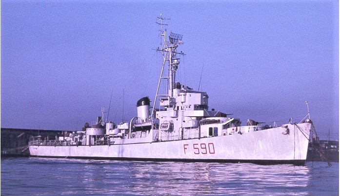 The frigate Aldebaran docked in Naples in 1967